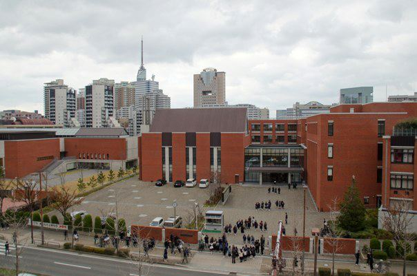 seinan